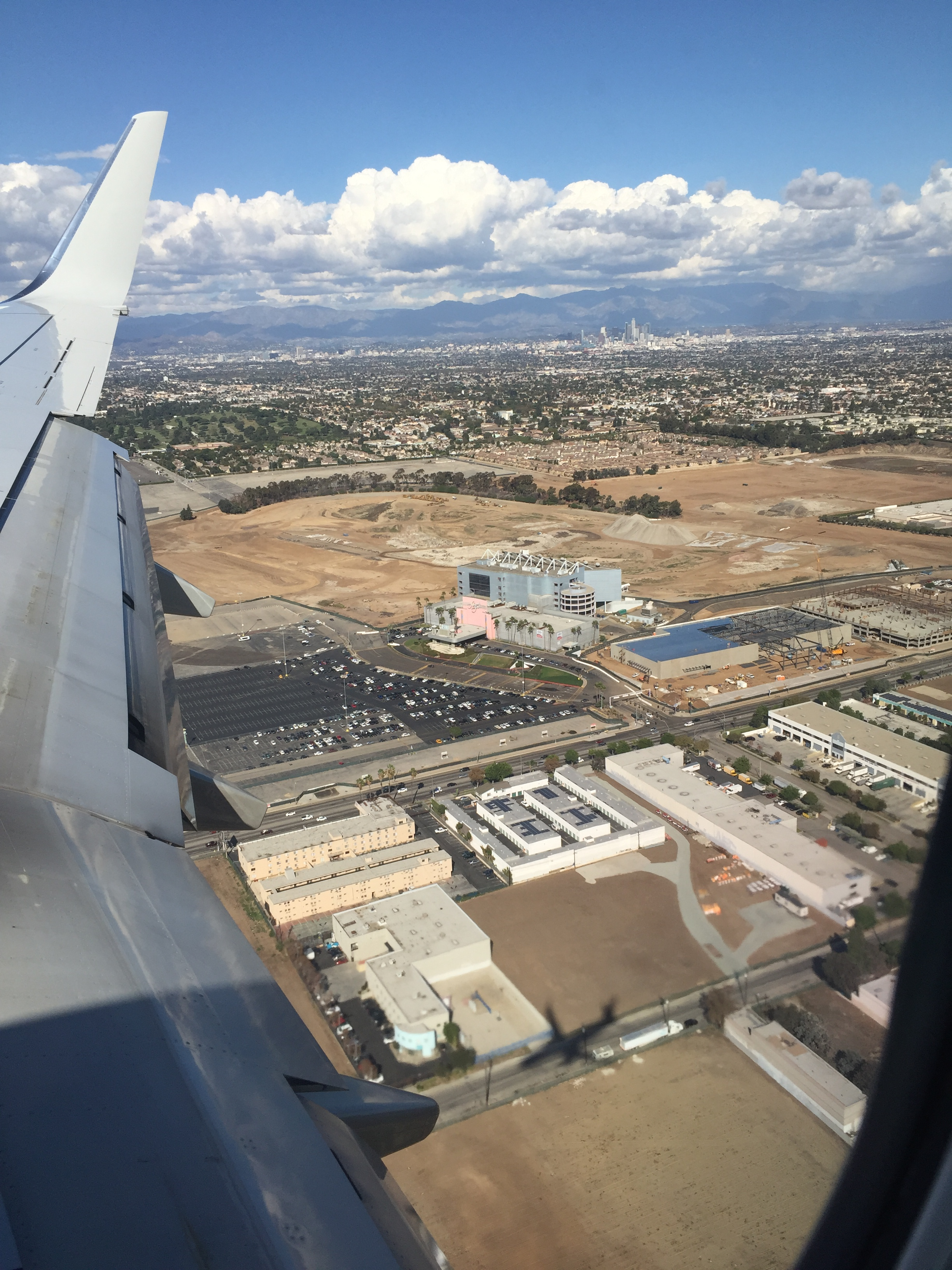 Location of the former Hollywood Park Racetrack, and future home to the City of Champions Stadium.